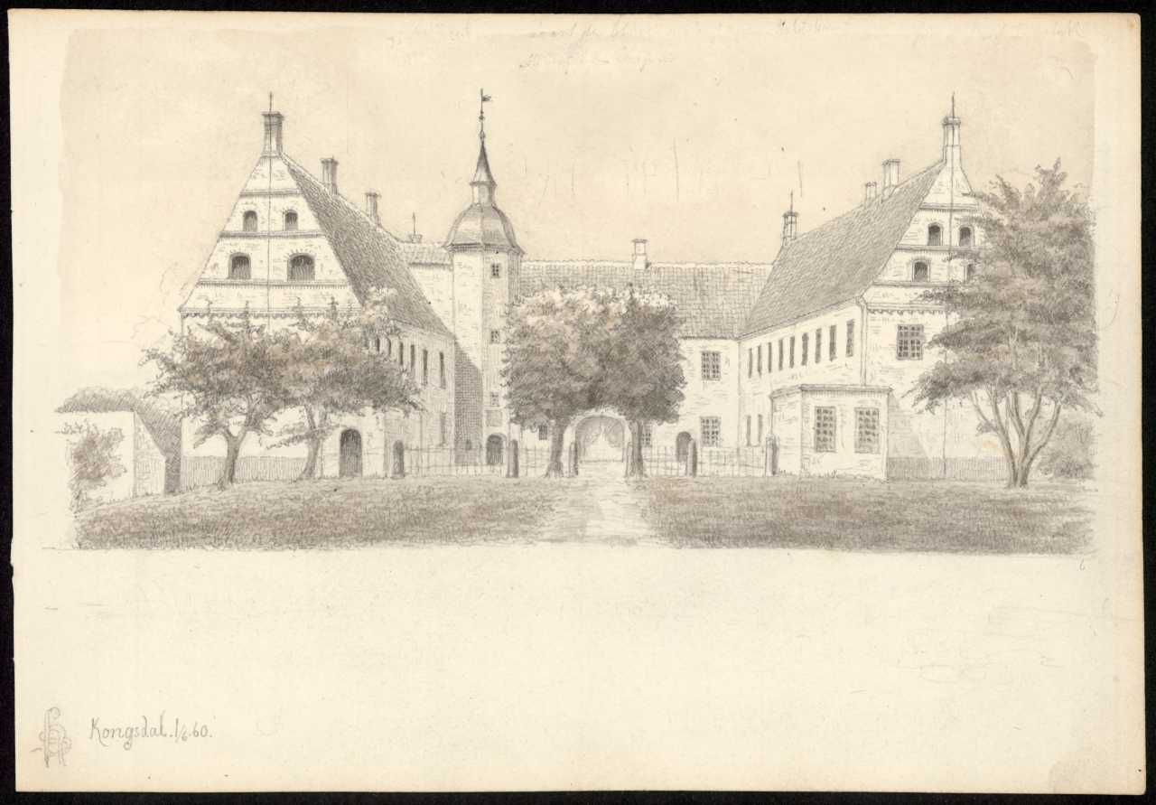 Kongsdal Manor near Holbæk, Denmark